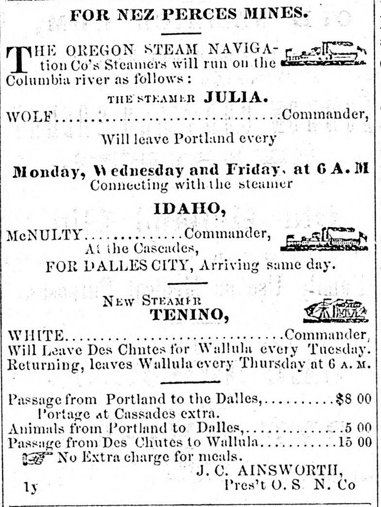 Advertisement published in Walla Walla Washington Statesman, April 5, 1862, page 1, column 2, for the Oregon Steam Navigation Company and its steamer Colonel Wright (running on the Columbia River)